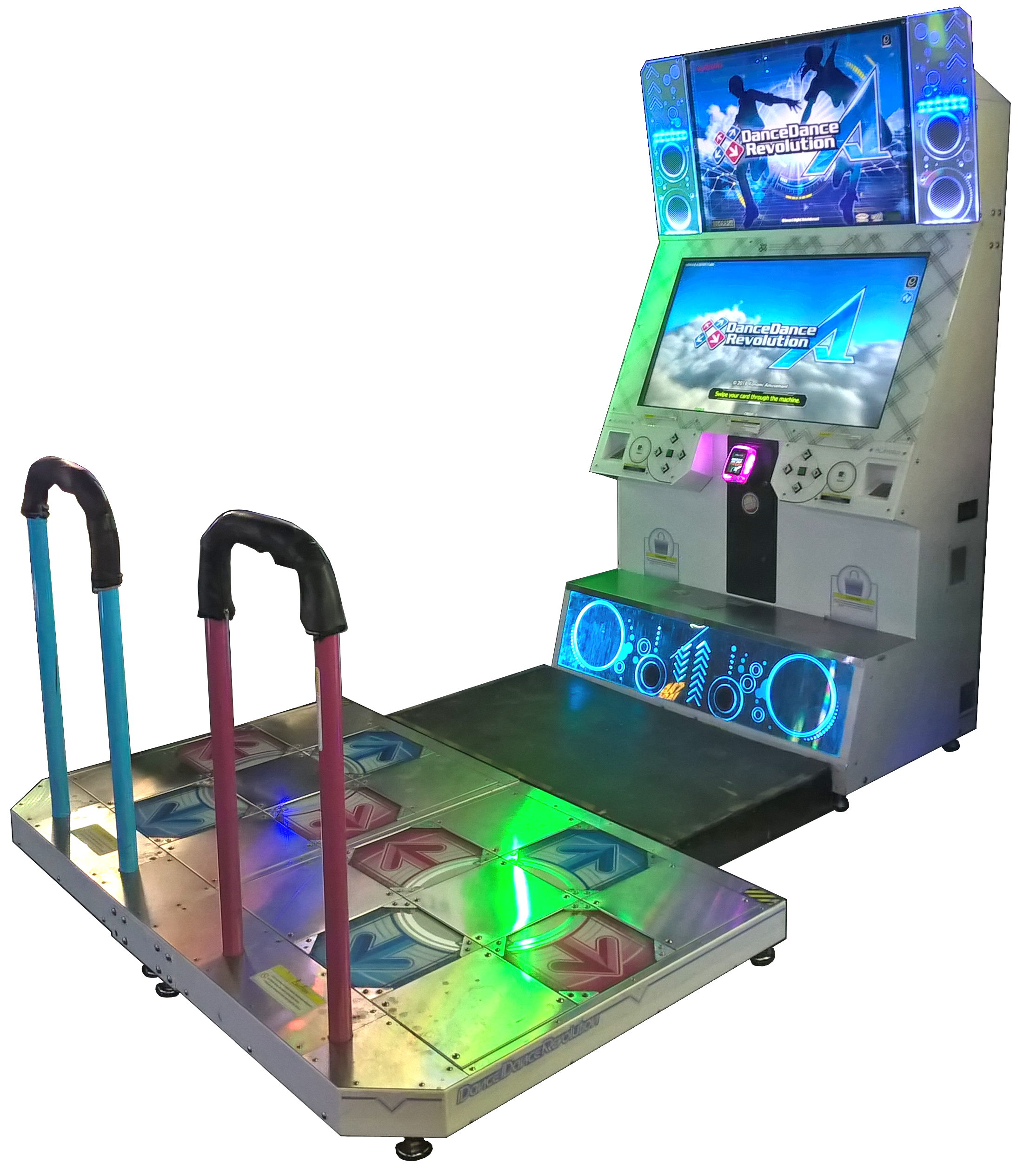 DanceDance Revolution A machine in Oakville, Ontario, Canada